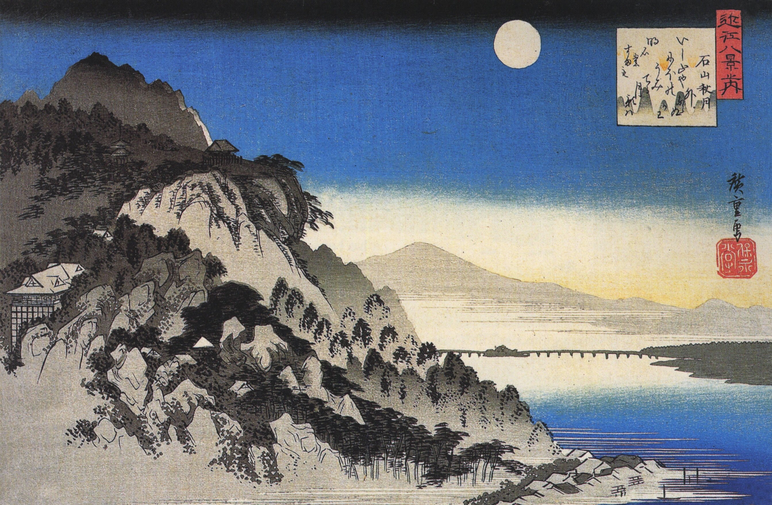 8 Views of Omi - #3. Autumn Moon At Ishiyama Temple